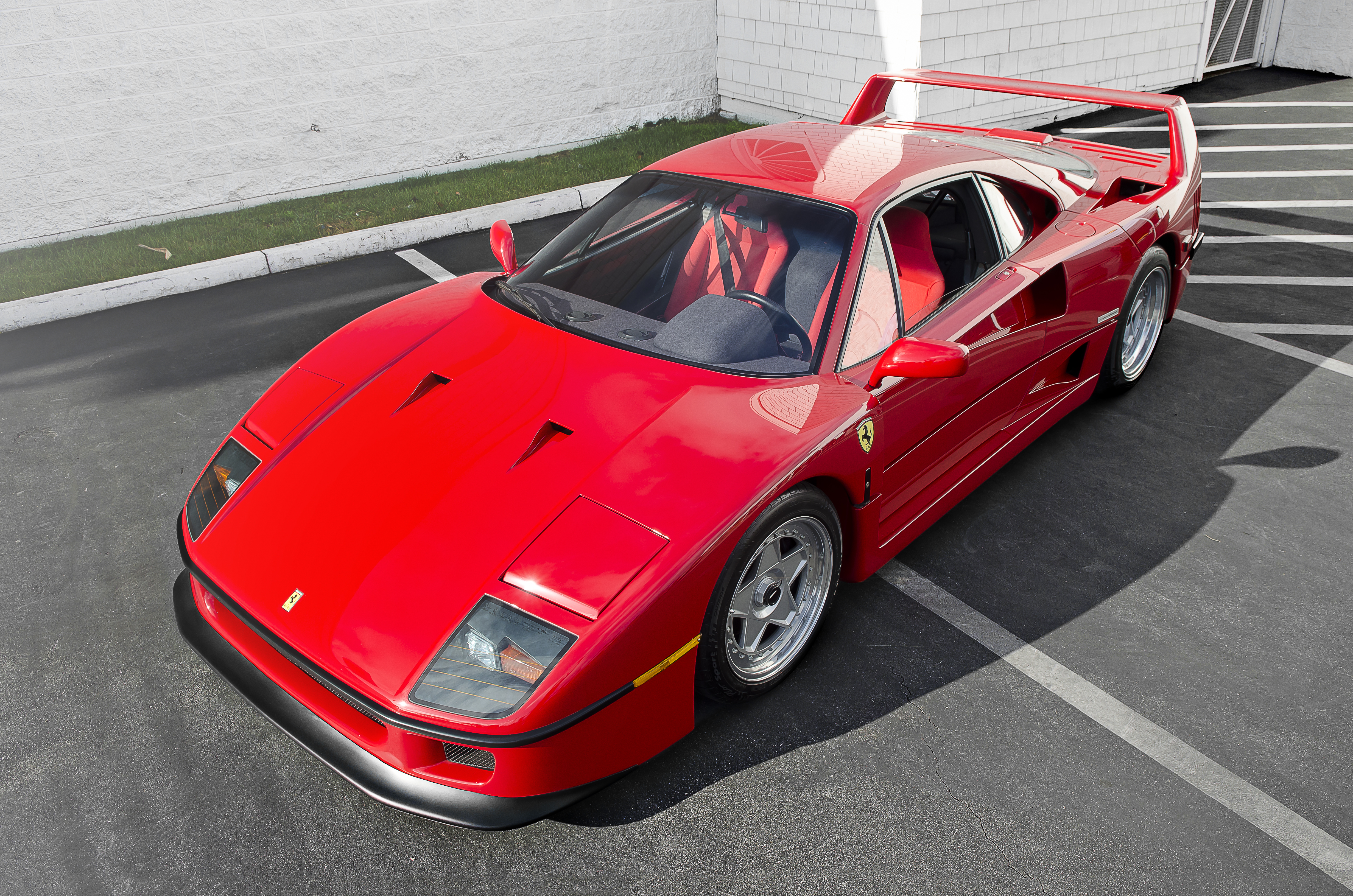 Ferrari F40 at Lamborghini Newport Beach Cars and Coffee.